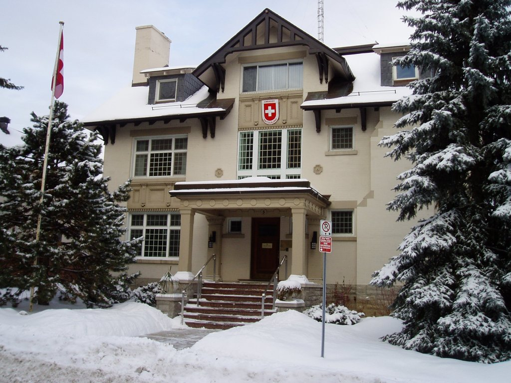 Embassy of Switzerland in Ottawa, Canada